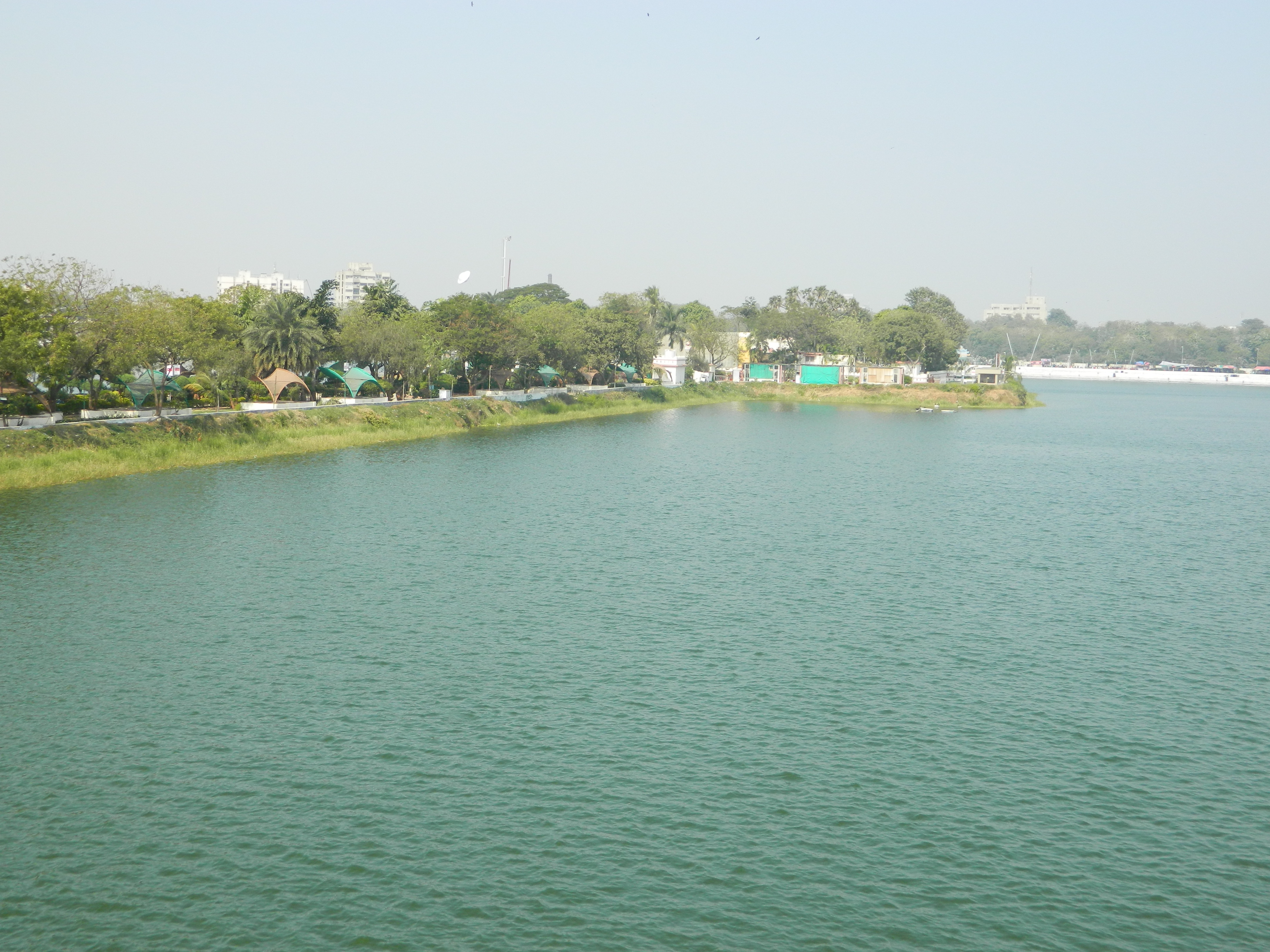 Nagina wadi inside Kankariya Lake